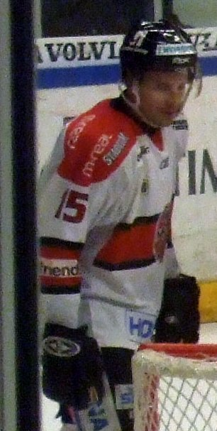 Ice hockey player Andreas Salomonsson of MODO Hockey in E.ON Arena, Timrå, Sweden